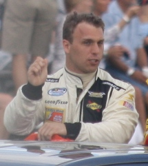 NASCAR driver Joey Scarallo during driver introductions at the 2010 Bucyros 200 the first Nationwide Series race at Road America.